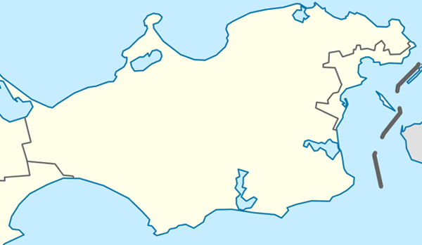 Map of the Kerch Peninsula (white) — between the Sea of Azov (above/north, blue), and Black Sea (below/south, blue). The Kerch municipality boundary line is indicated along the northeastern coast (upper right).